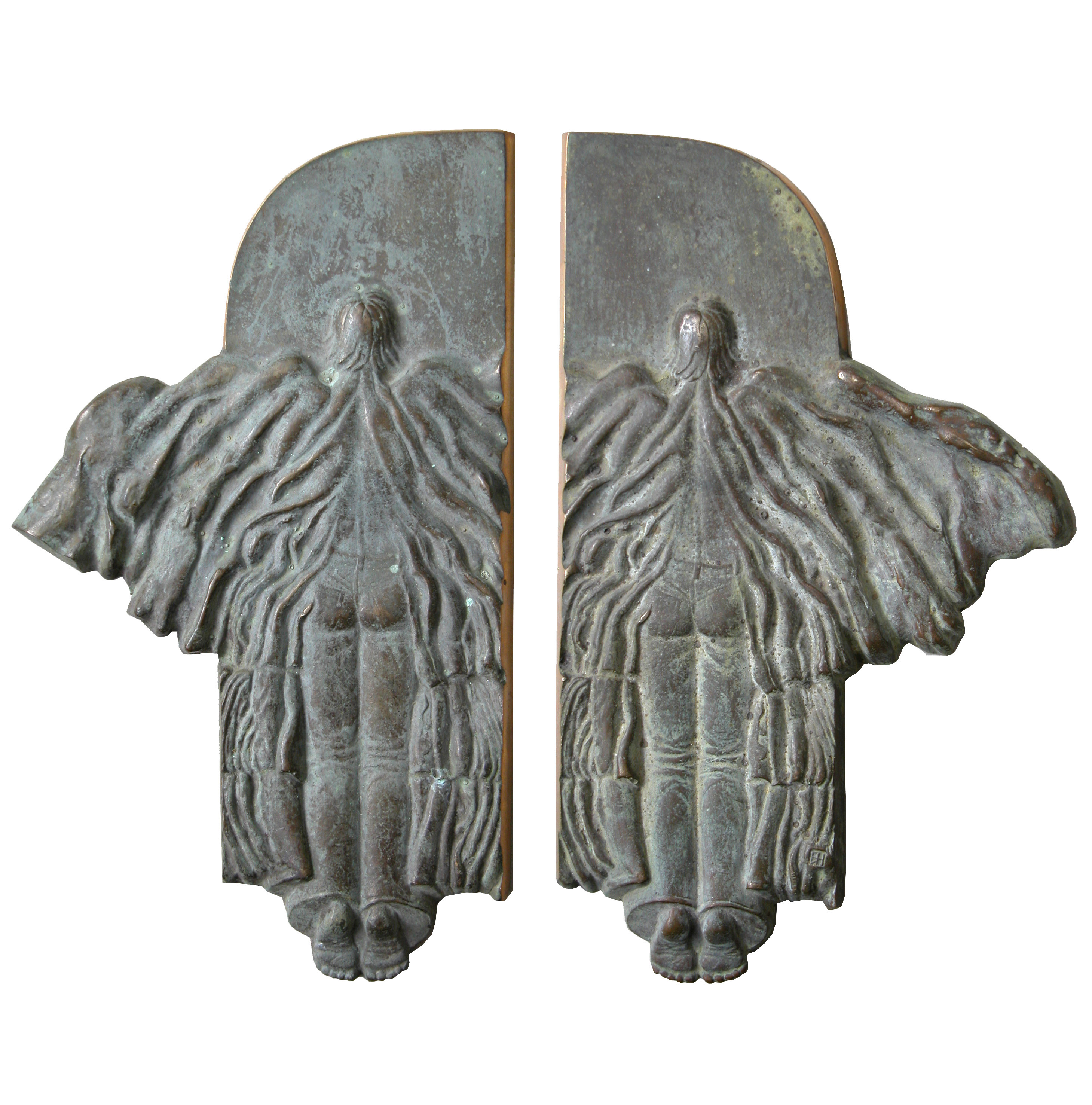 SPACE TRIP 1982, brass, 400 х 300 mm